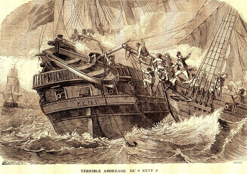 Engraving of the taking of the Kent by La Confiance on October, 7 1800 by Sourcuf